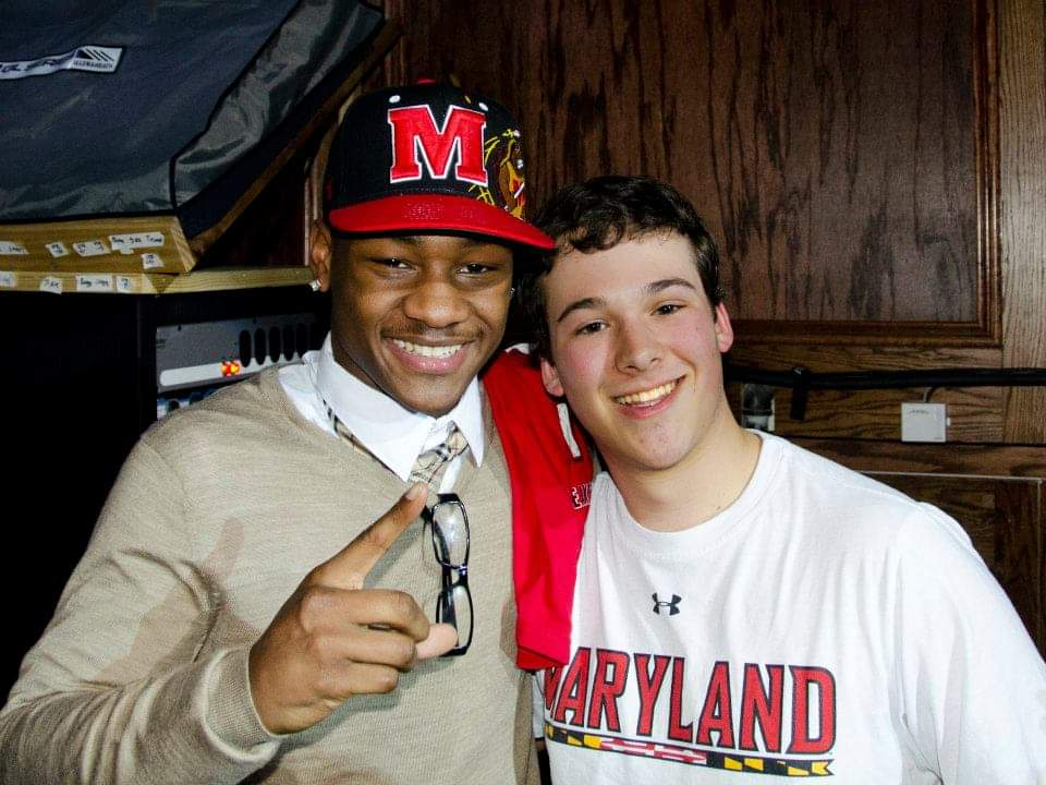 Stefon Diggs commits to Maryland